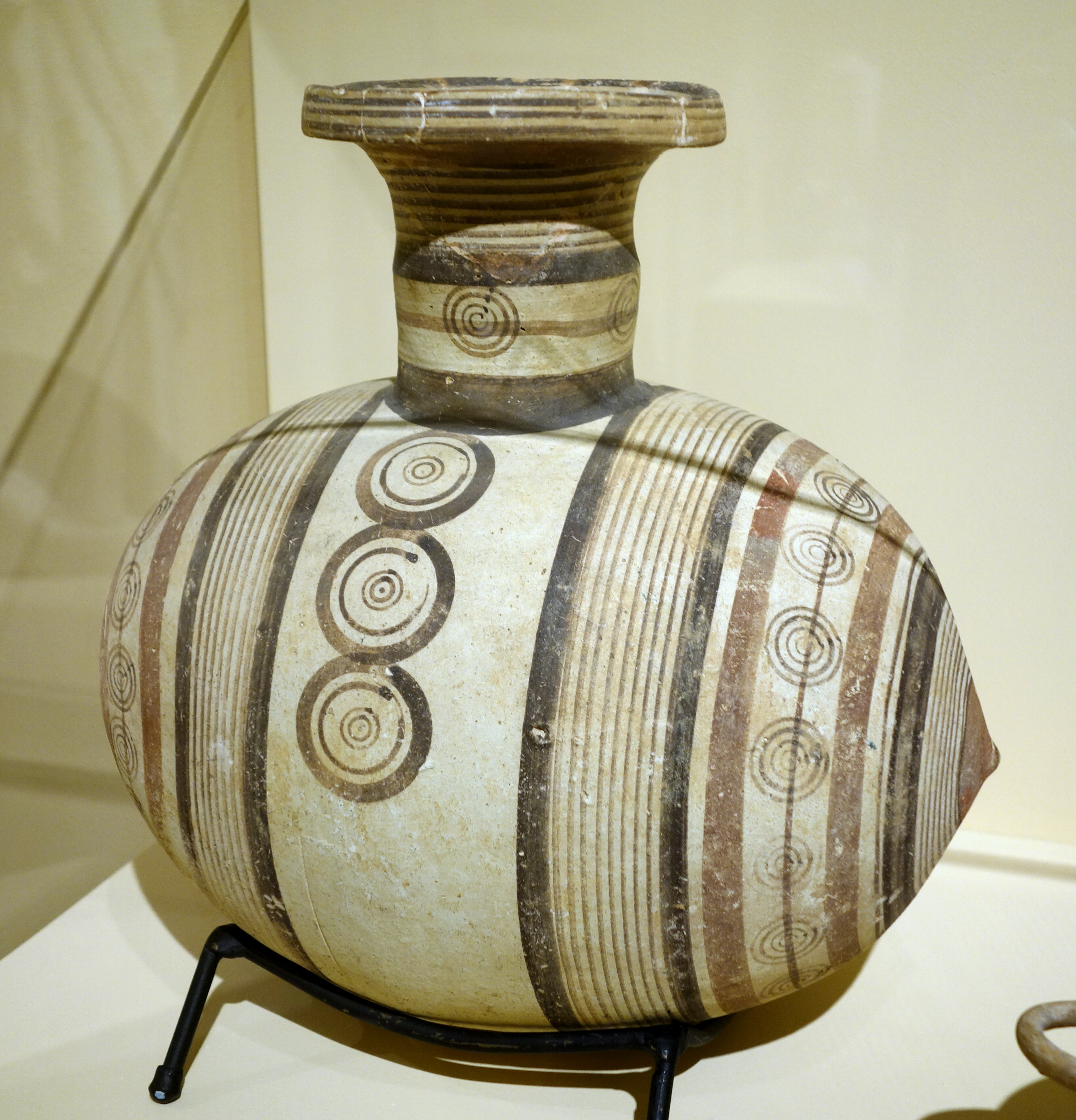 Exhibit in the Fitchburg Art Museum, Fitchburg, Massachusetts, USA. This artwork is old enough so that it is in the public domain.